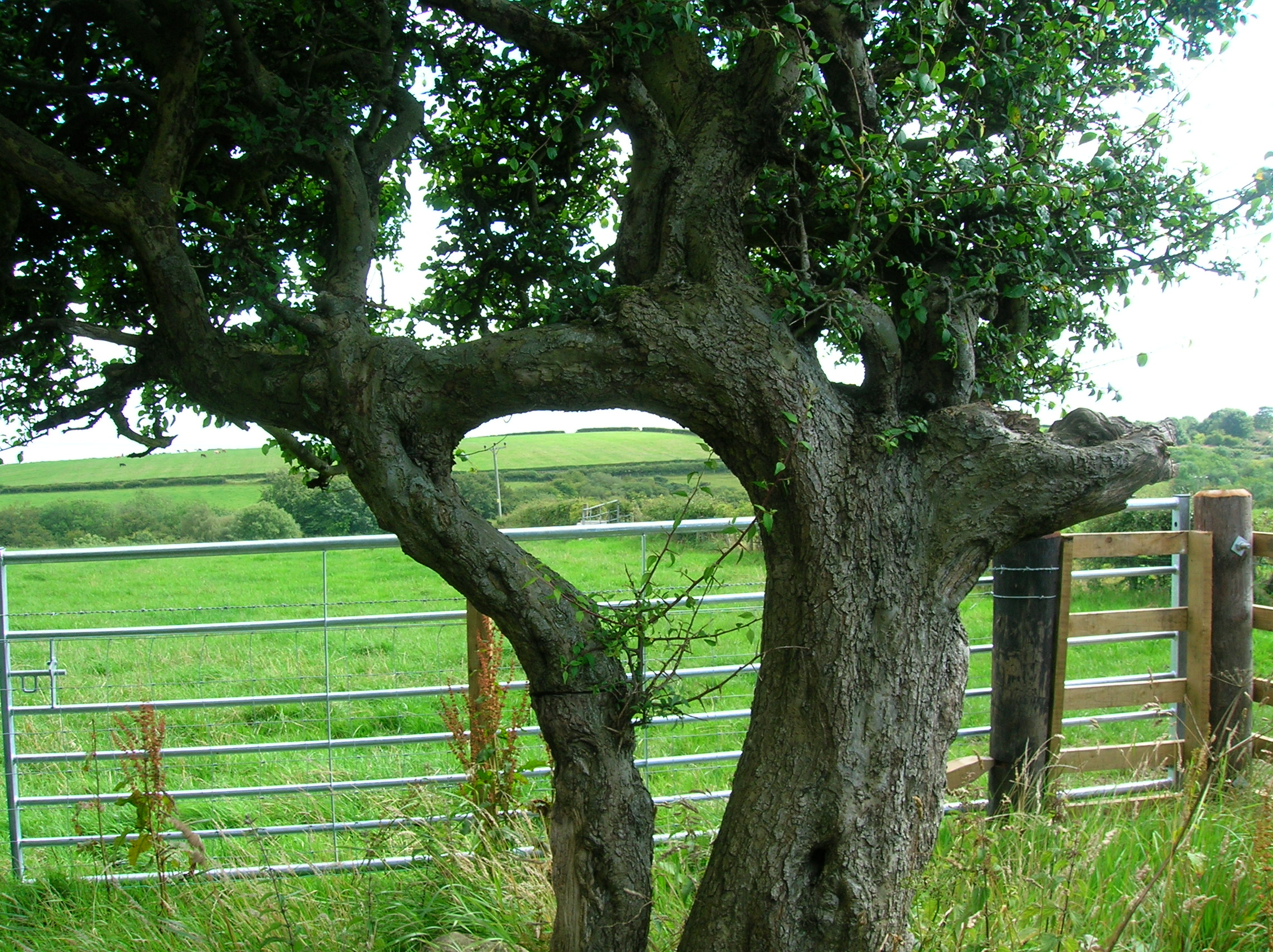 Detail - Inosculated (self-grafted) crab apple trees. The "Husband & Wife tree", Lynncraigs farm, Dalry, North Ayrshire, Scotland